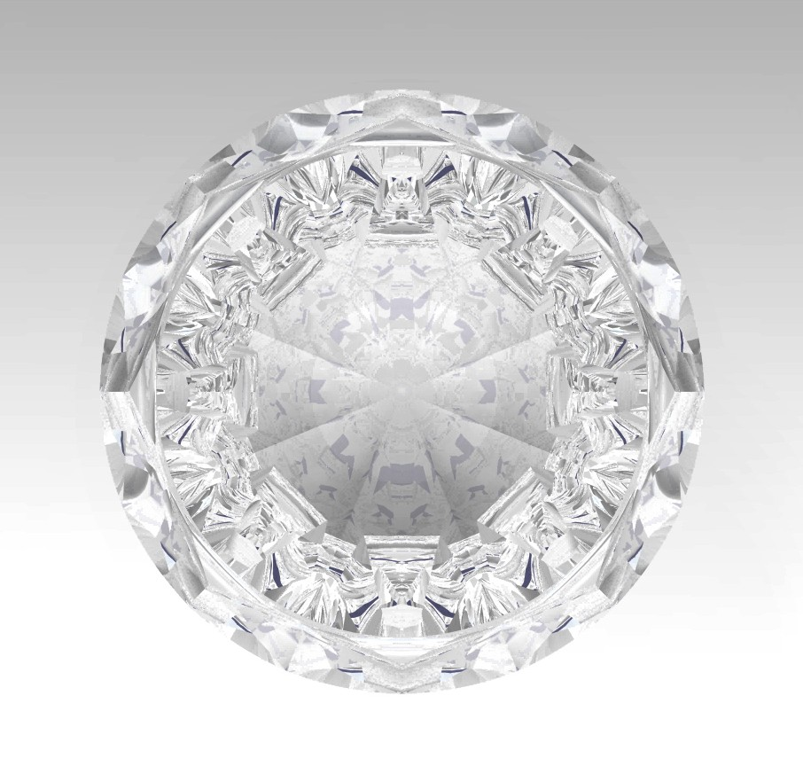 This is a rendition created after modelling a diamond in CATIA V5R19.